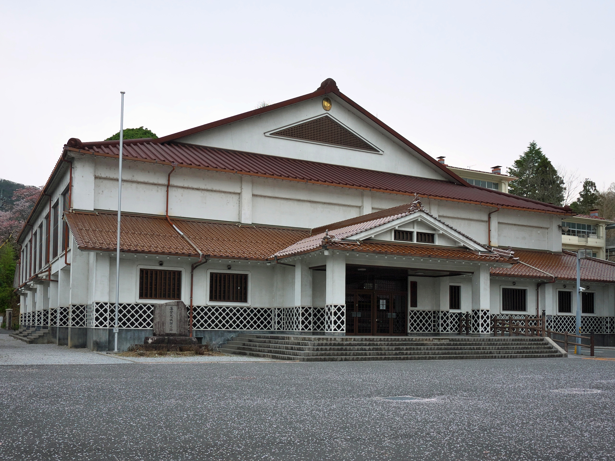 Niimi Municipal Shisei Elementary School